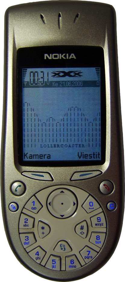 My Nokia 3650, cut out.